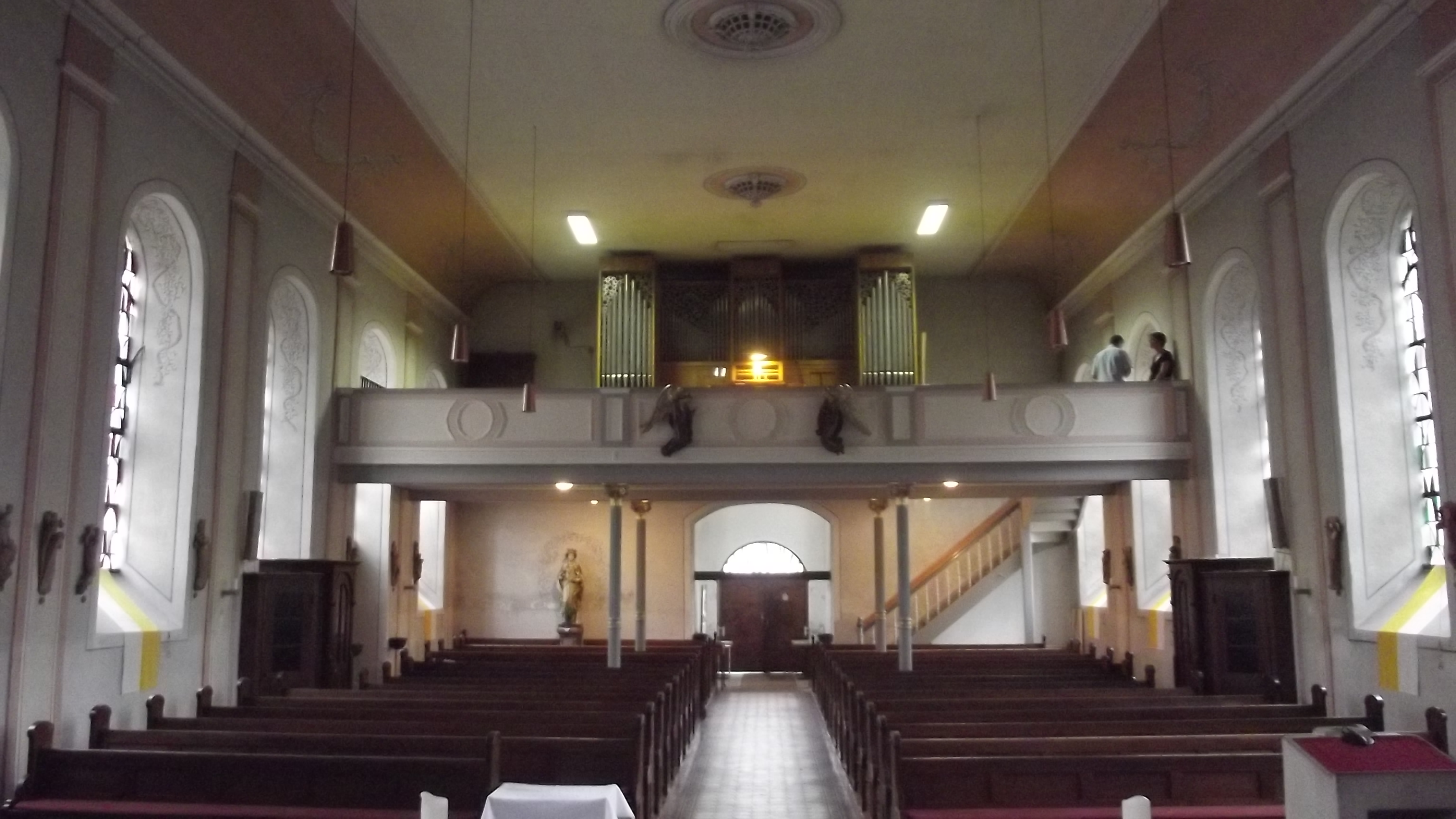 Interior of the roman catholic church in Furschweiler, Saarland